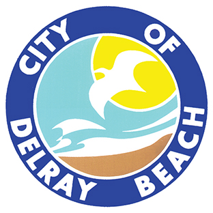 Official Seal of Delray Beach, Florida